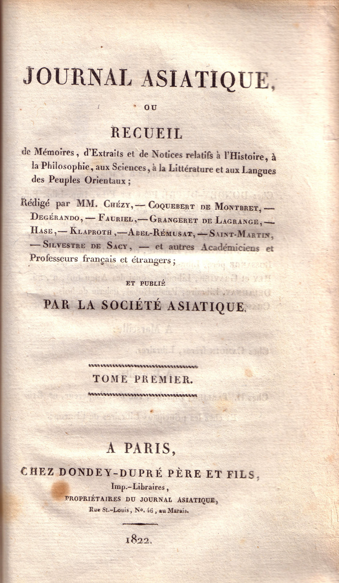 Cover of an 1822 edition of "Journal Asiatique"